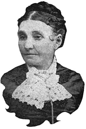 Margaret Young Taylor, a member of the inaugural general presidency of what is today the Young Women organization of The Church of Jesus Christ of Latter-day Saints.